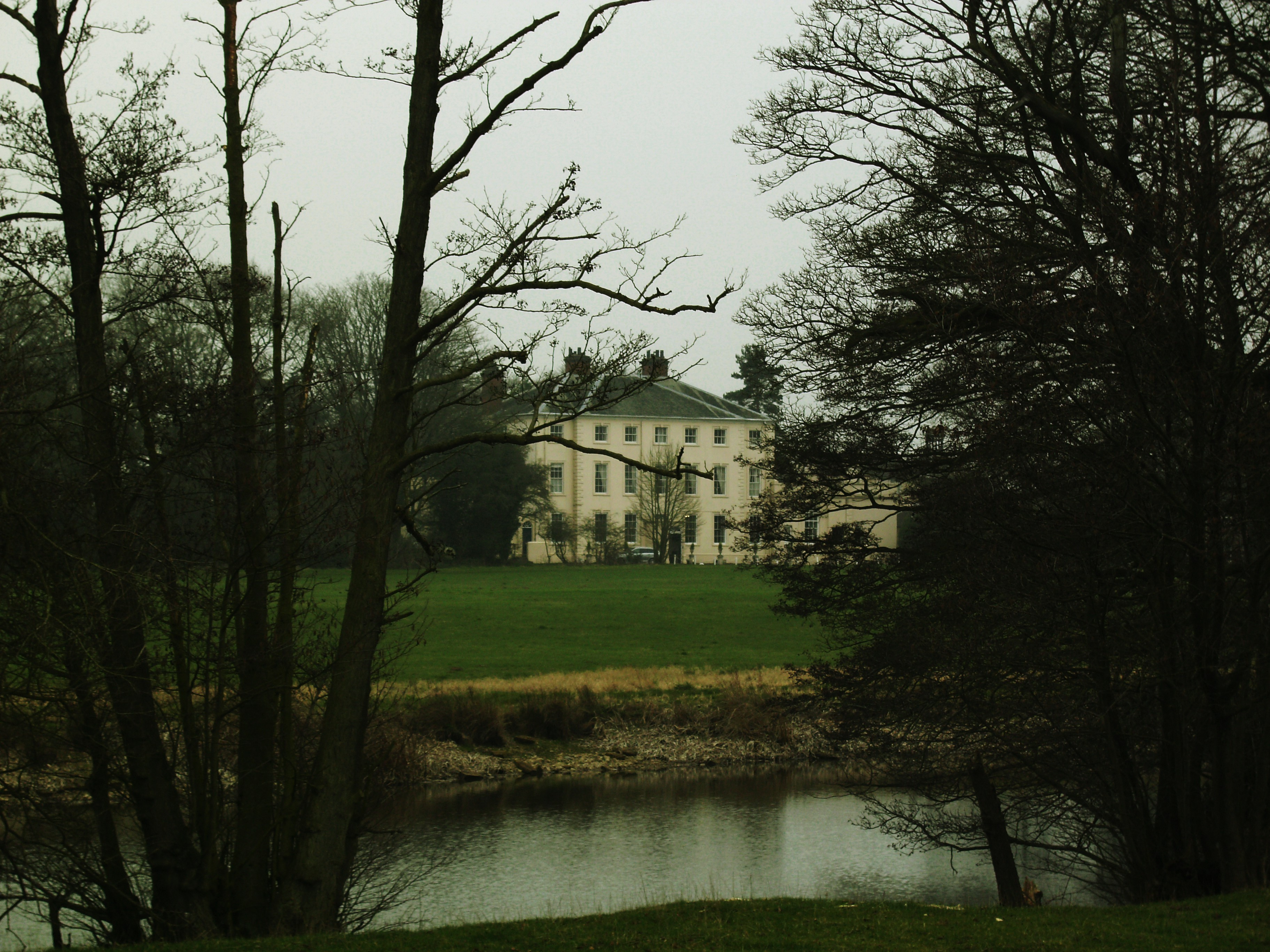 Somerford Hall, Brewood, Staffordshire, a Georgian country house, seat of the Monckton family 1779-1858.